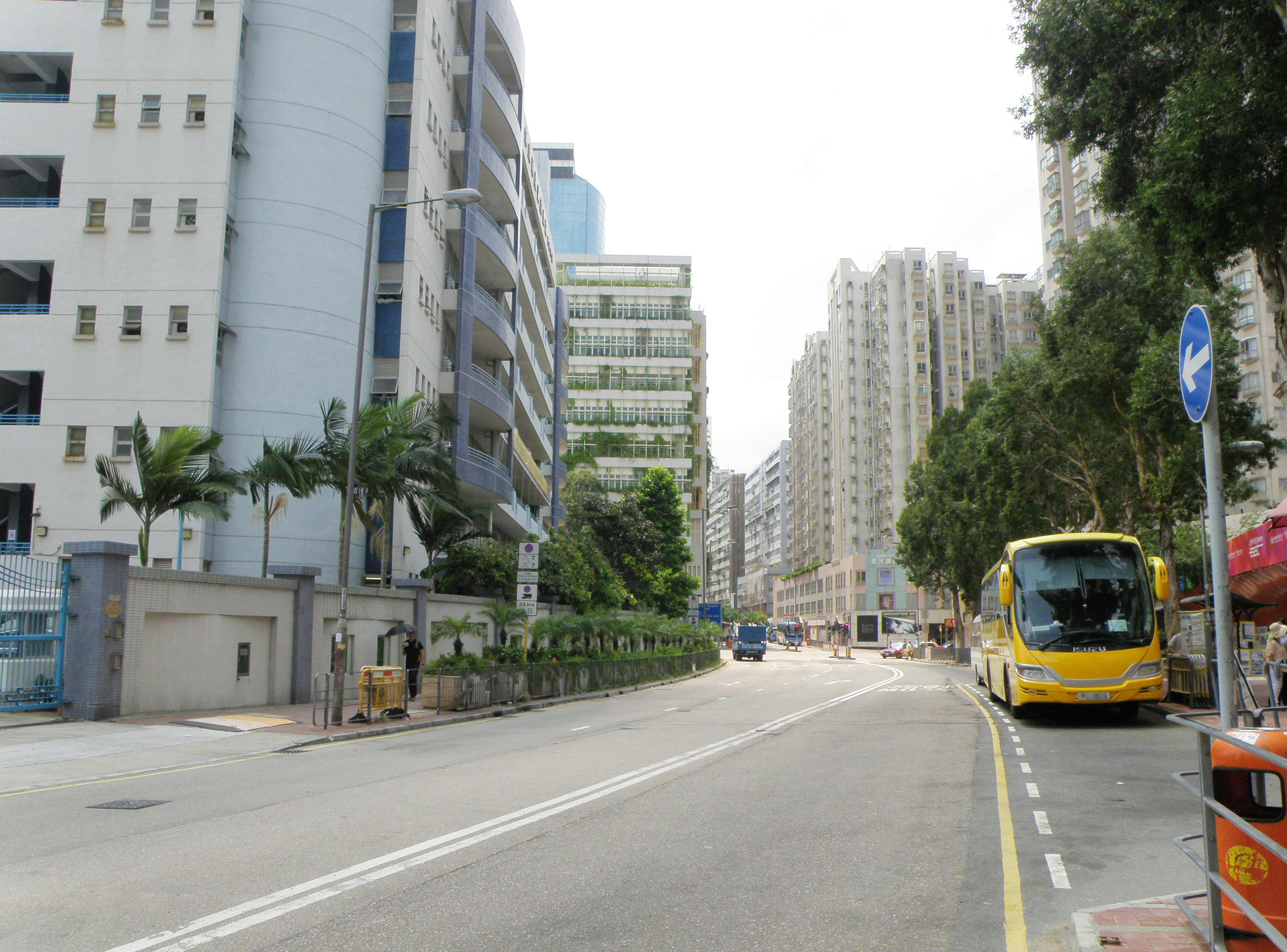 Sung On Street in Ma Tau Wai, Hong Kong.